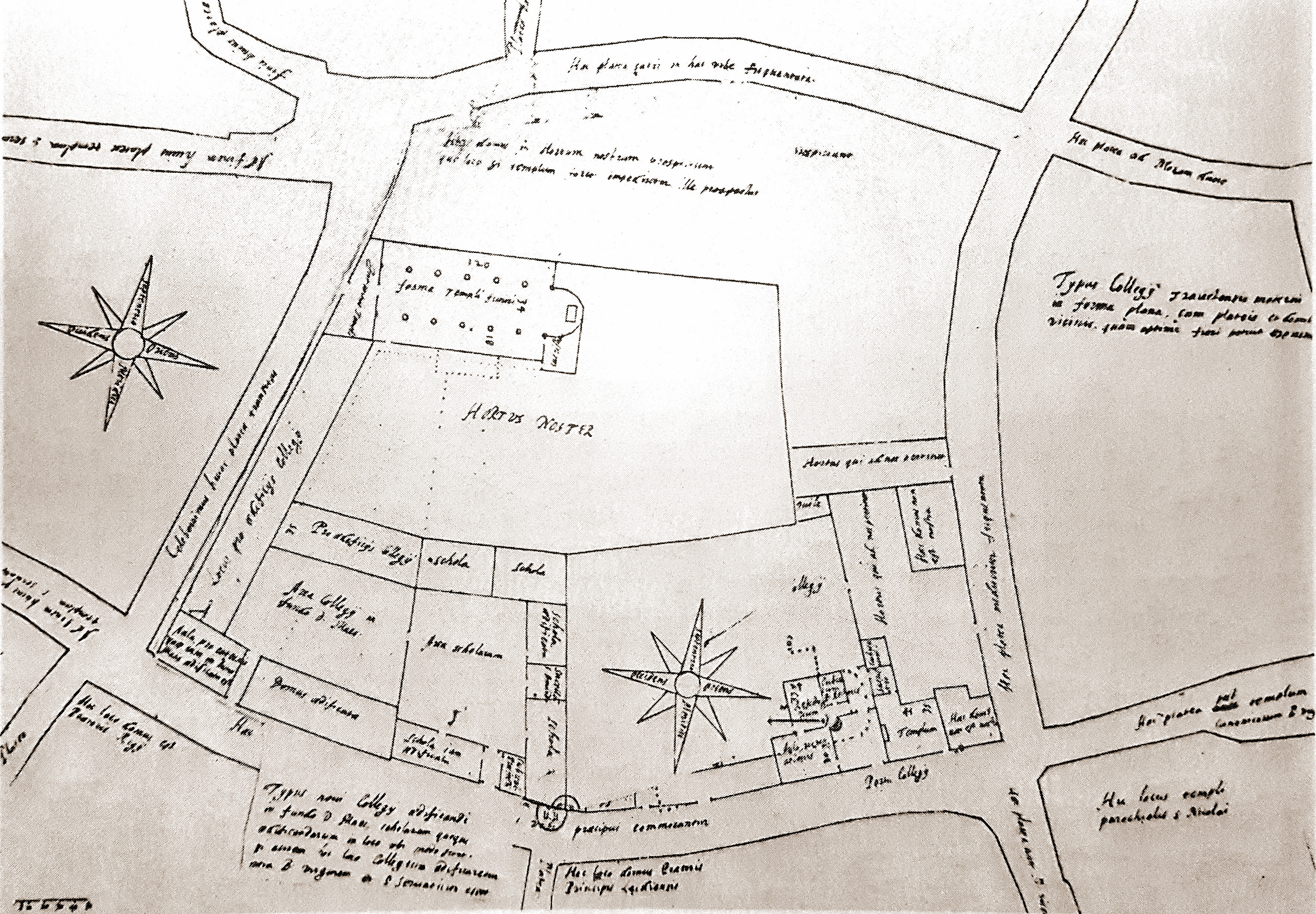 A plan of 1590-1599 of the Jesuit school and monastery in the centre of Maastricht, the Netherlands. The plan may be by the Jesuit architect Peter Huyssens, who joined the monastery in Maastricht in 1598 and built the church in 1606-14. The church was built in a different location as indicated on the plan.